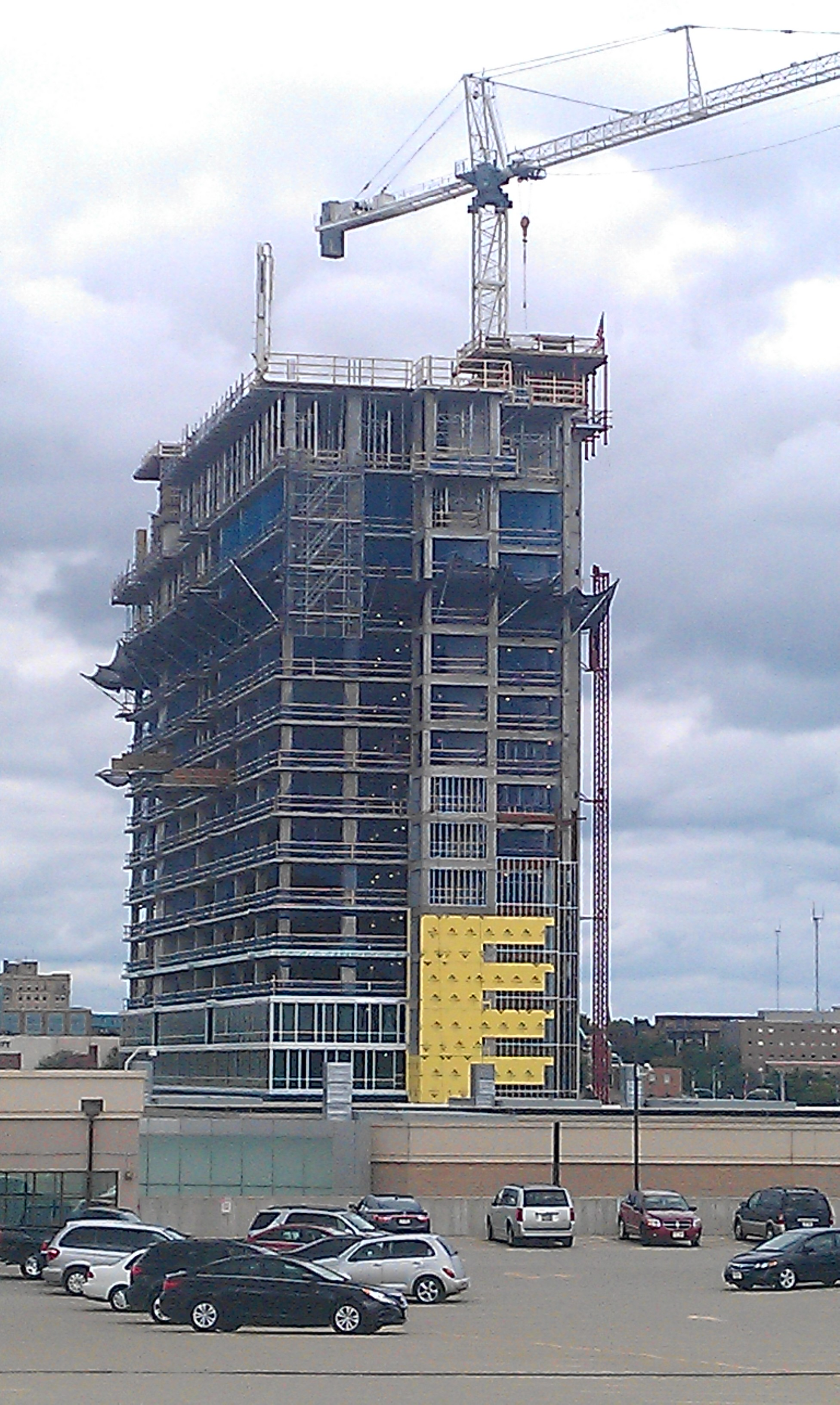 The 21 story hotel addition to the Potawatomi Bingo and Casino, under construction, as seen from the roof of the parking garage in September 2013.